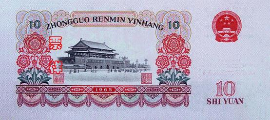 Third series of the renminbi 10yuan(sample)